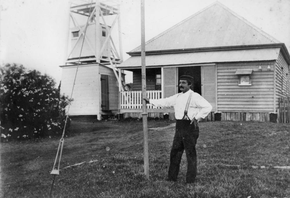 Creator: Unidentified Location: Moreton Island, Queensland Description: The man in charge of the Pilot Station at the time was Mr Palmer, who is pictured at the signal pole. View this image at the State Library of Queensland: Information about State Library of Queensland’s collection